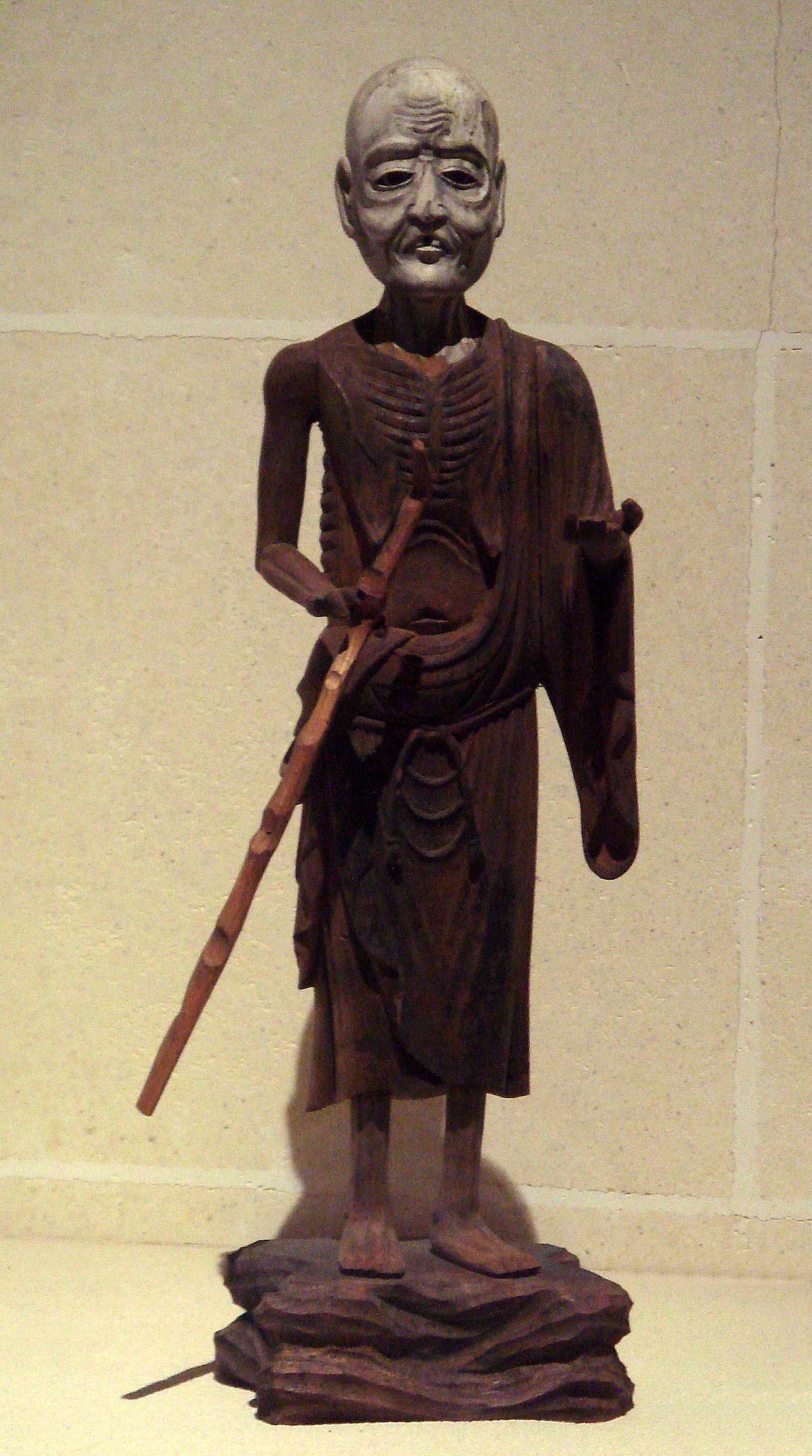 Battabara sonja